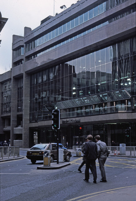 38 Bishopsgate, opposite the junction with Threadneedle Street, London EC2 38 Bishopsgate used to be the London headquarters of Standard Chartered Bank. It is situated opposite the junction of Threadneedle Street and Bishopsgate.